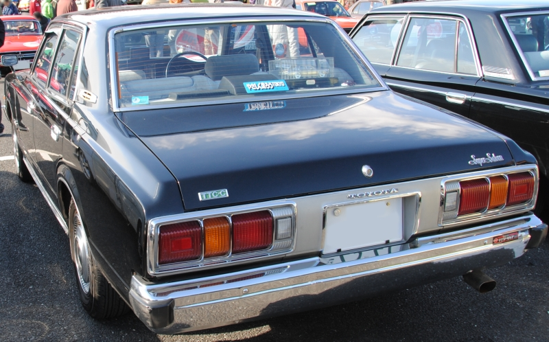 Toyota Crown Super Saloon